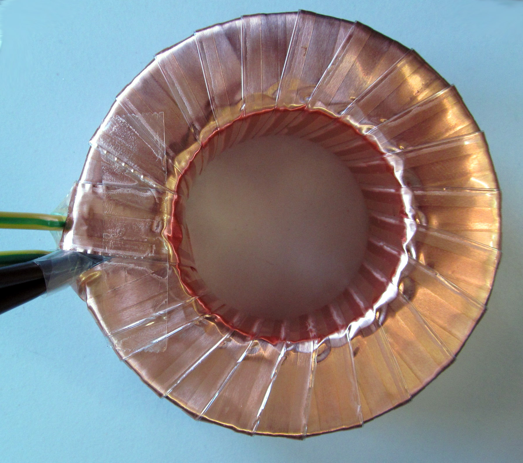 static shield on toroidal transformer